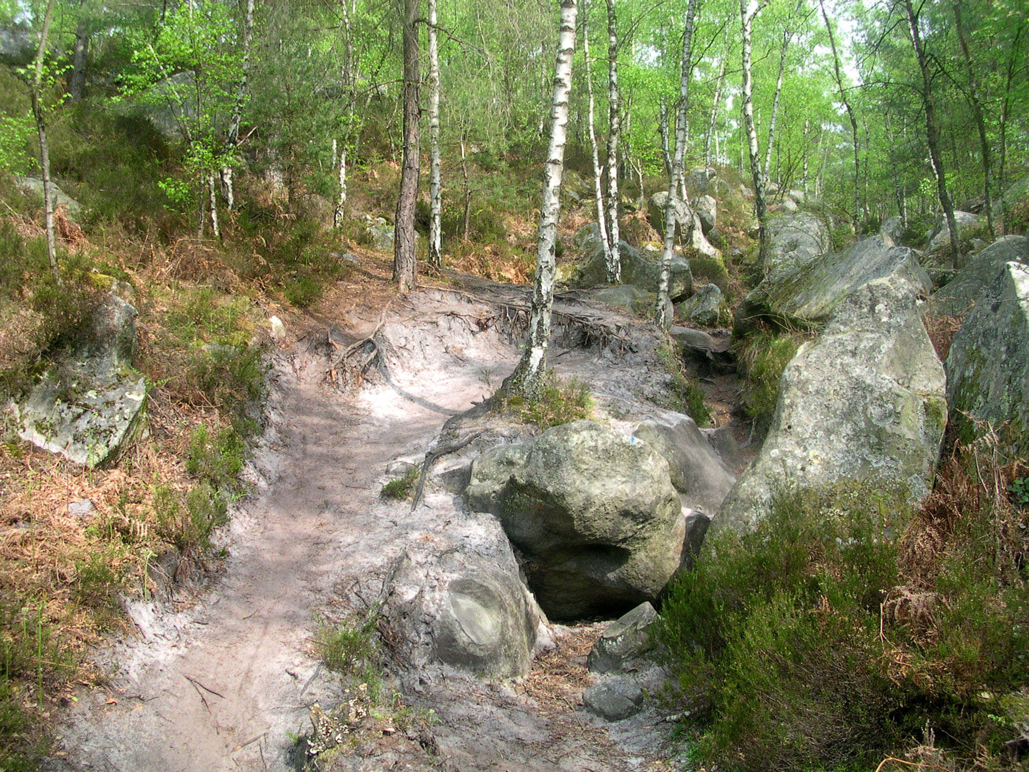 strong erosion on a hiking path in Fontainebleau forest. Auteur/author Romary mai/May 2006